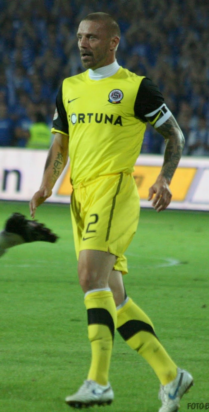 Czech football player Tomáš Řepka during Champions League qualifier KKS Lech Poznań - AC Sparta Prague